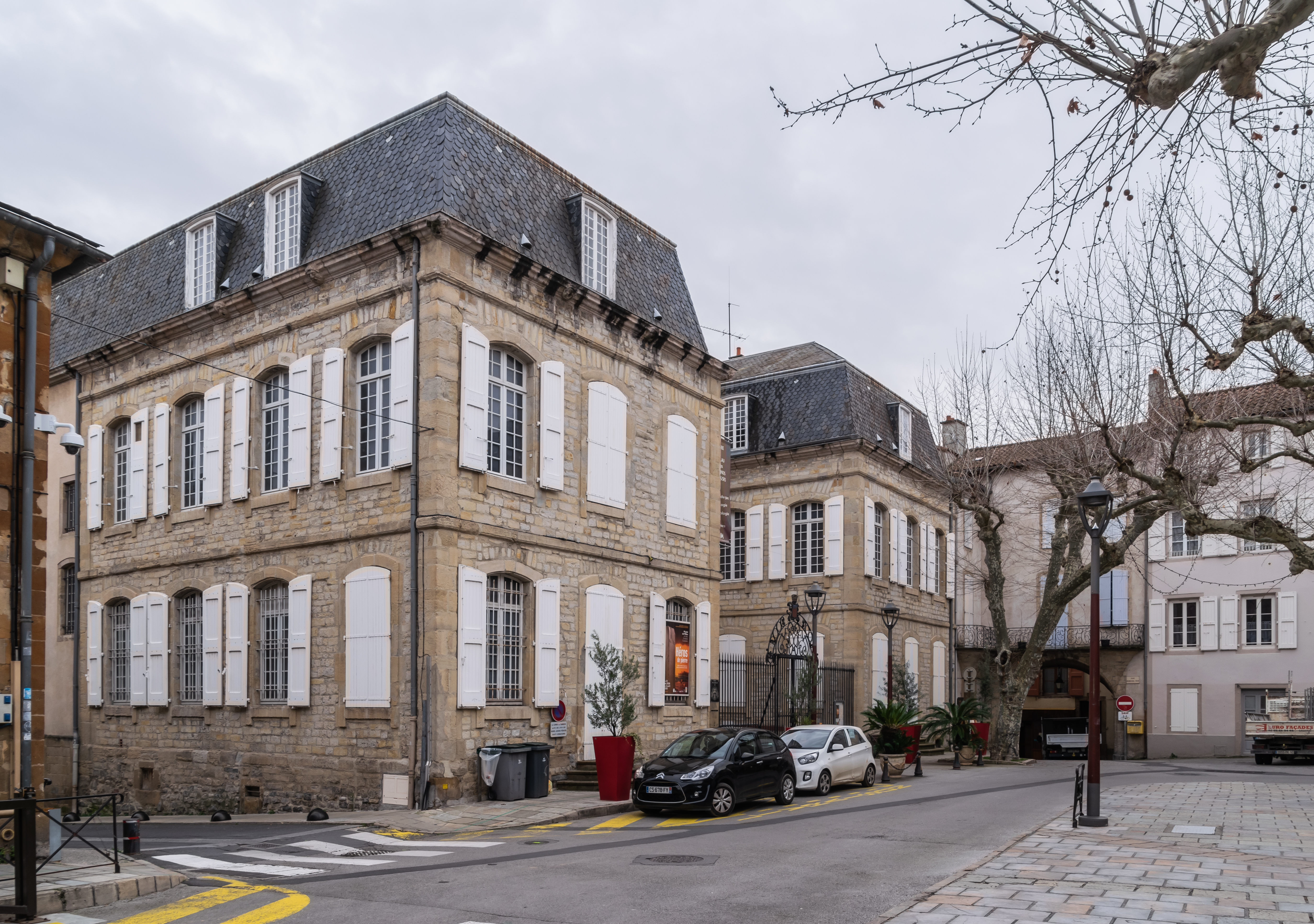 Hôtel de Pégayrolles in Millau, Aveyron, France .